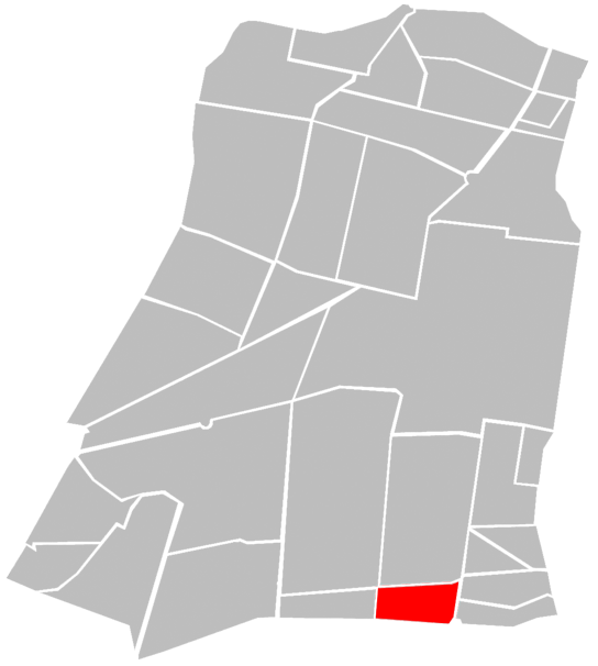 Map of Delegación Cuauhtémoc in Mexico City, with Colonia Algarín highlighted in red